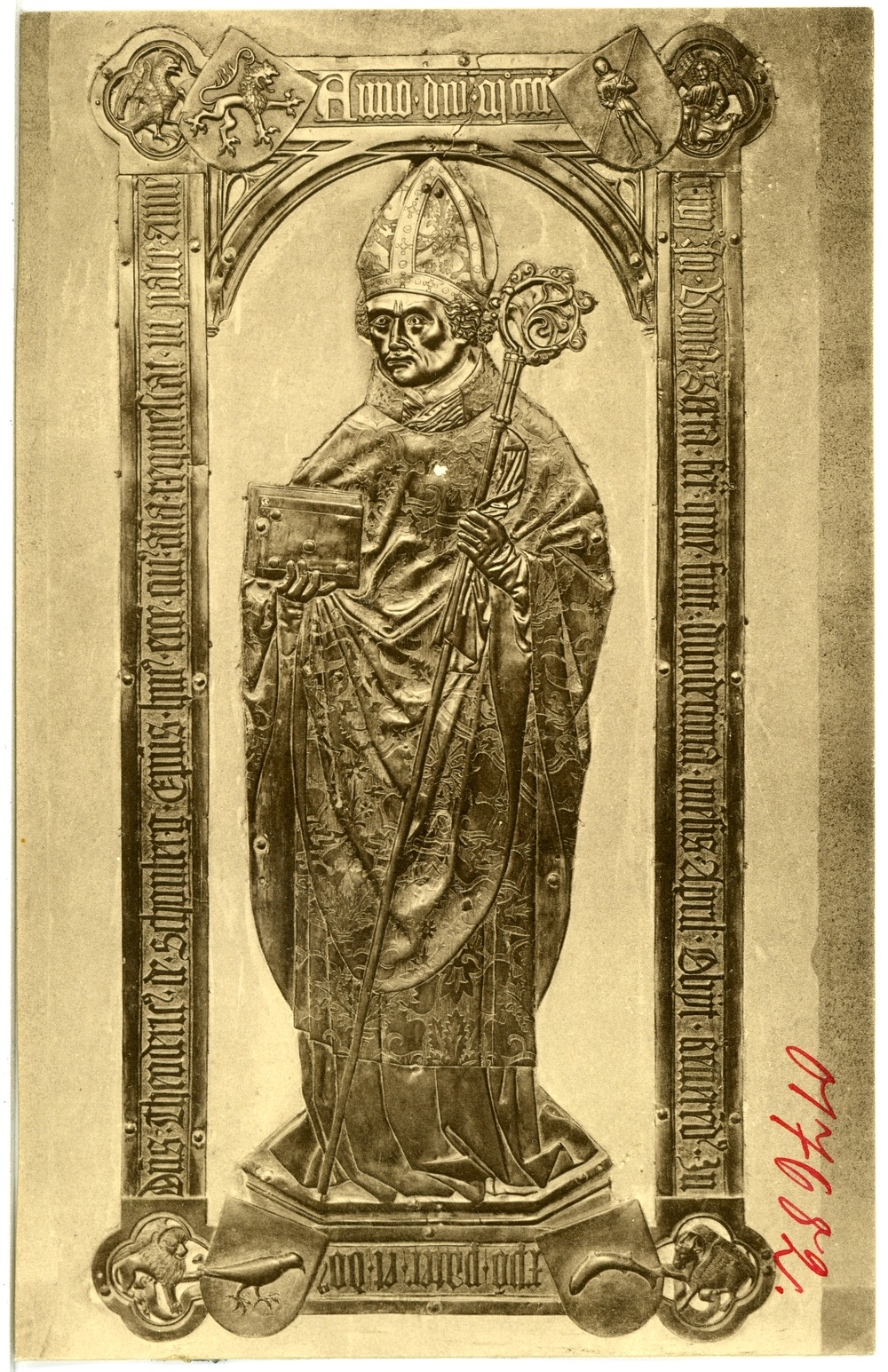 This postcard is from publisher Brück & Sohn in Meißen ( This postcard has a unique number 17682 and is available in a higher resolution at the publisher. This images was uploaded in a cooperation project between Wikipedians and the publisher.